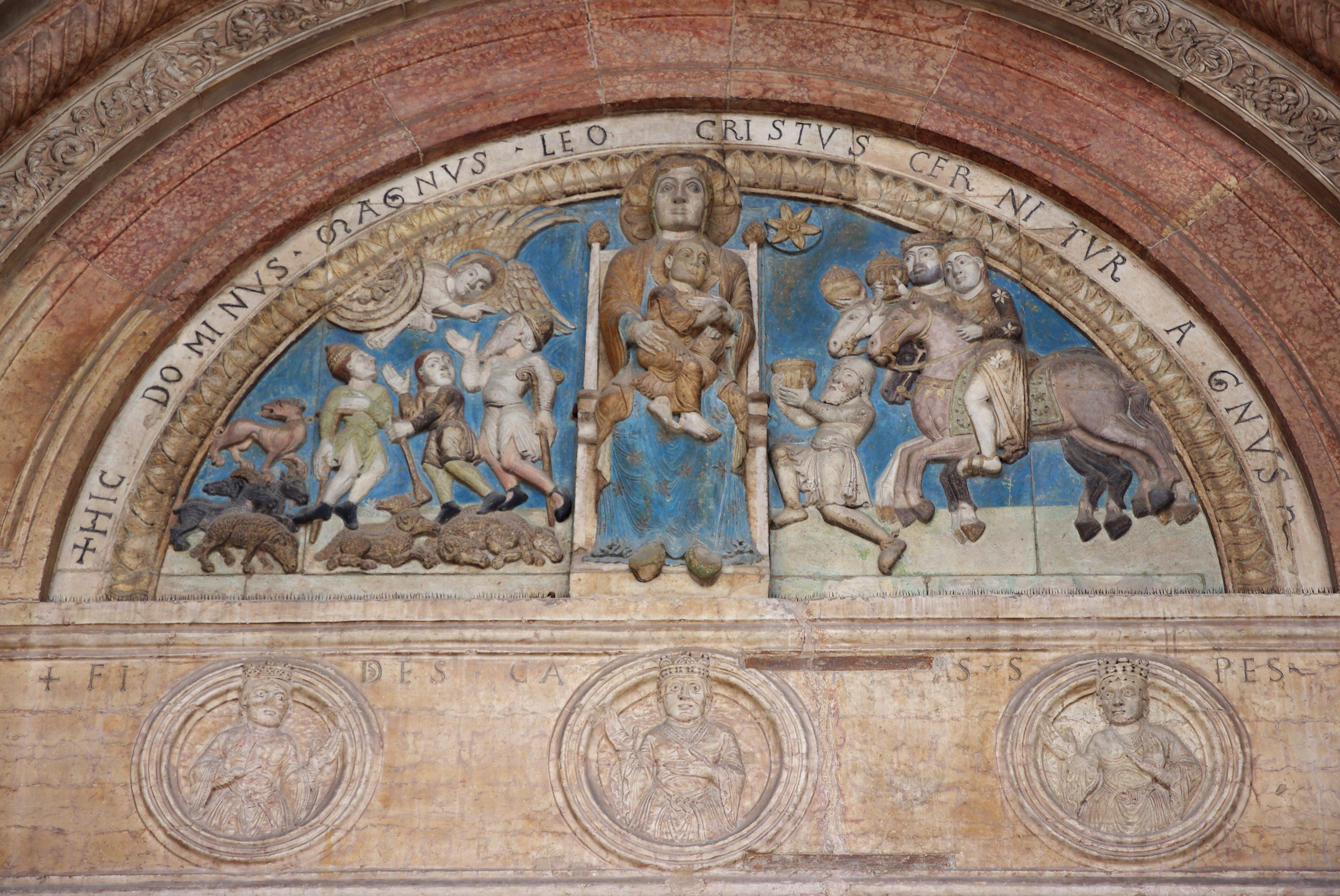 Verona ( Italy ). Cathedral: Romanesque tympanum ( 1139 ) of the main portal with annunciation to shepherds and adoration of the Magi.